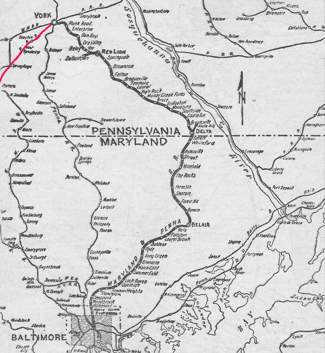 Route map of the Maryland and Pennsylvania Railroad (the "Ma and Pa") in the 1930s–1950s, which appeared in numerous non-copyrighted timetables and publications before 1958. The former Pennsylvania Railroad branch between York and Hanover, Pennsylvania, acquired by the Ma and Pa in the 1980s (now York Railway) is highlighted in red